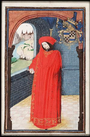 Statuts, Ordonnances et Armorial de l'Ordre de la Toison d'Or (Statutes, Ordonnances and armorial of the Order of the Golden Fleece) Place of origin, date: Southern Netherlands; 1473. Added sections: Southern Netherlands; 1478 or shortly after and 1491 or shortly after Material: Vellum, ff. 86, 249x187 (167x106) mm, 23 lines, littera cursiva (lettre bourguignonne). French. Binding: 18th-century brown leather Decoration: 1 full-page miniature (170x115 mm) with border decoration; 92 miniatures (185/155x120/100 mm); 1 historiated initial (80x90 mm) with border decoration; decorated initials with border decoration (ff., Added section: miniatures ; 4 drawings for miniatures (not finished) Provenance: Presented in 1473 by Gilles Gobet, King of Arms of the Order of the Golden Fleece, to Charles the Bold, Duke of Burgundy and the other Knights during the Chapter of the Order held at Valenciennes; Treasure of the Golden Fleece, Brussls; taken away by the Treasurer C.-F. Humyn (d. 1735) or his daughter C.Ch. de Corte; by legacy to her daughter M.-L. de Corte, wife of Ph.-E. de Poederlé; purchased in 1781 at the Poederlé sale by G.-J- Gérard of Brussels; acquired in 1832 as part of the Gérard collection (no. A 27)